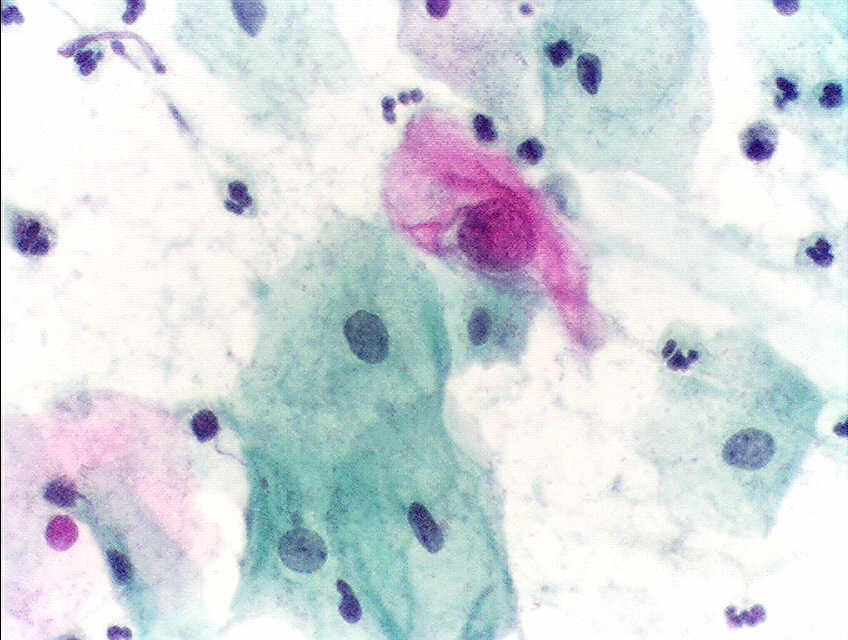 Pap test, Papanicolau stain, 400x. An obviously atypical cell can be seen.